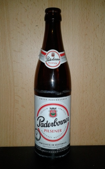 Paderborner Pilsener (.50 liter bottle)